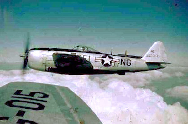 Republic P-47N-20-RA Thunderbolt 45-50034, 142d Fighter Squadron, Delaware ANG